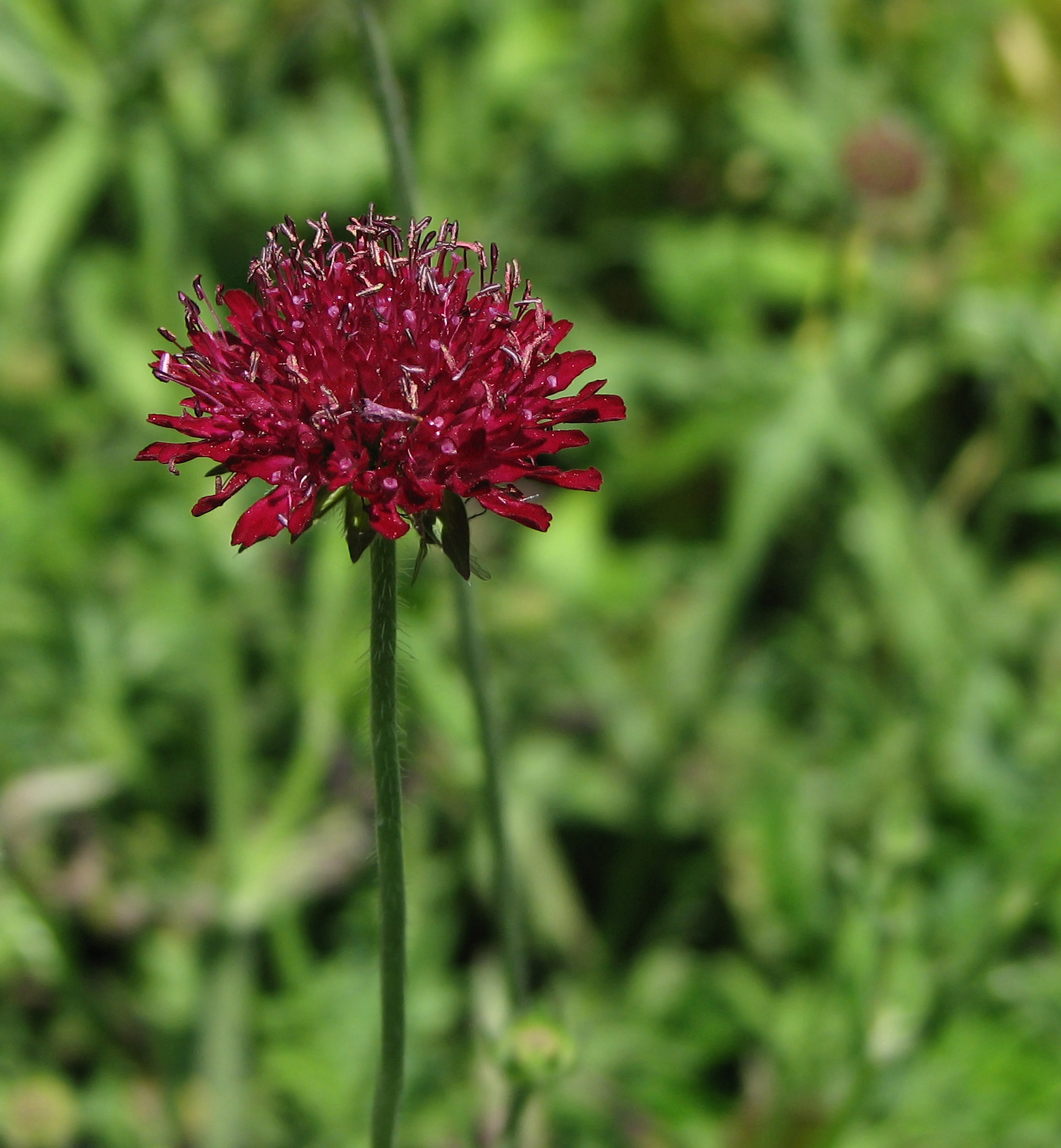 Comparison picture of the flower on Knautia macedonica. Photo taken in the Tennis Court Garden at the Chanticleer Garden where the species was identified.